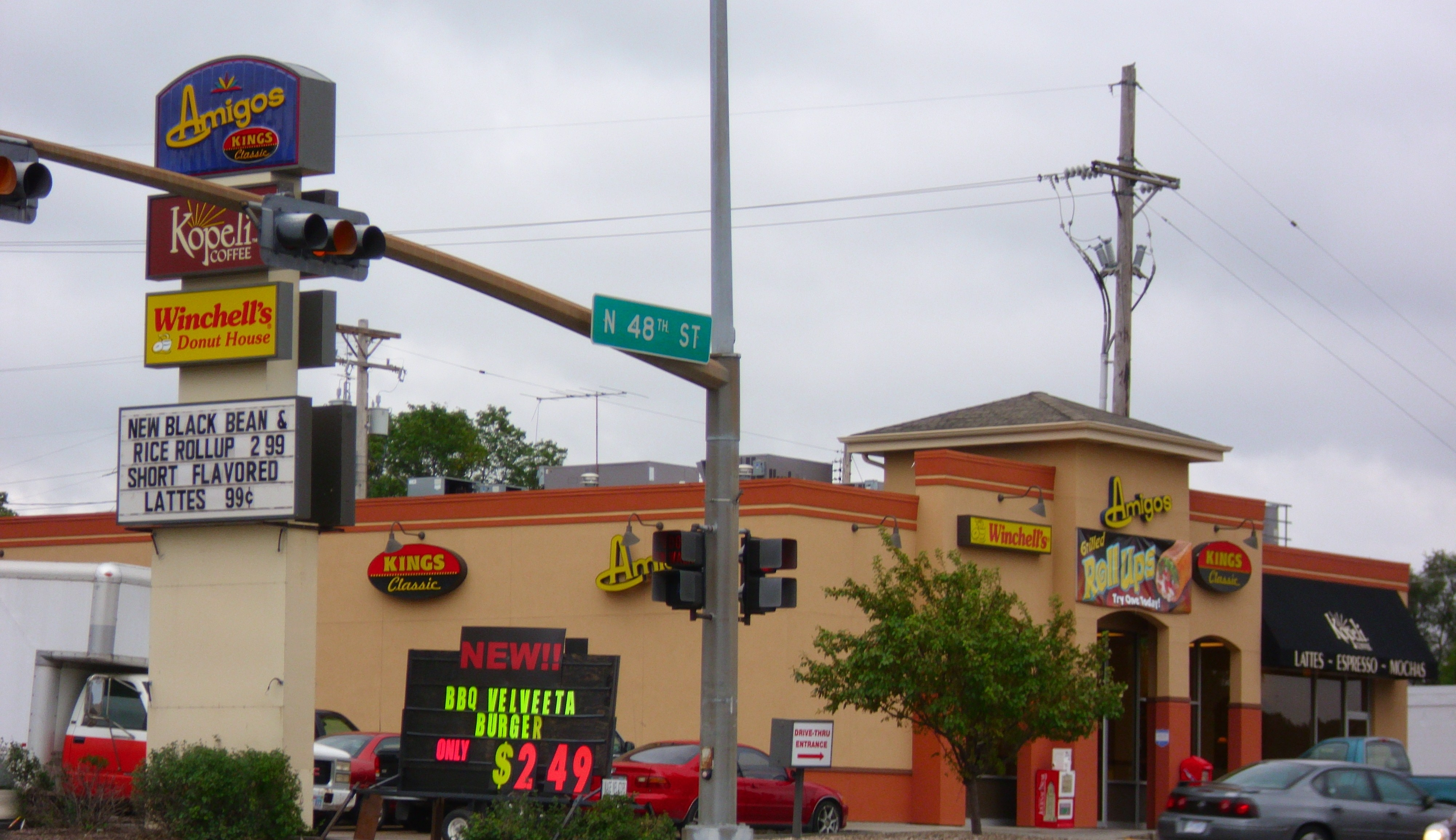 Amigos/Kings Classic at N. 48th St. and Leighton in Lincoln, NE.